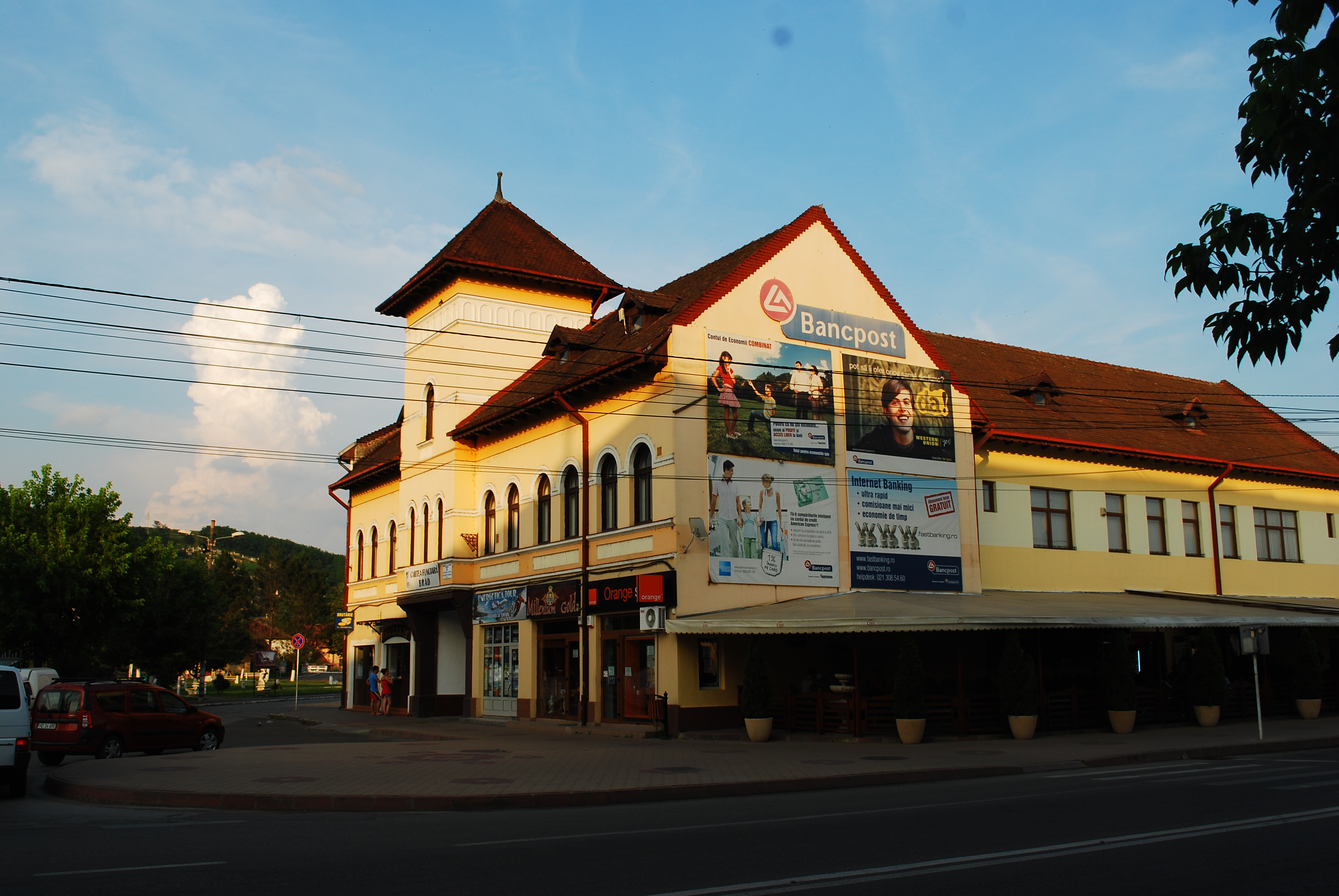 Historical building in Republicii Boulevard, Brad, Hunedoara County, Romania 03